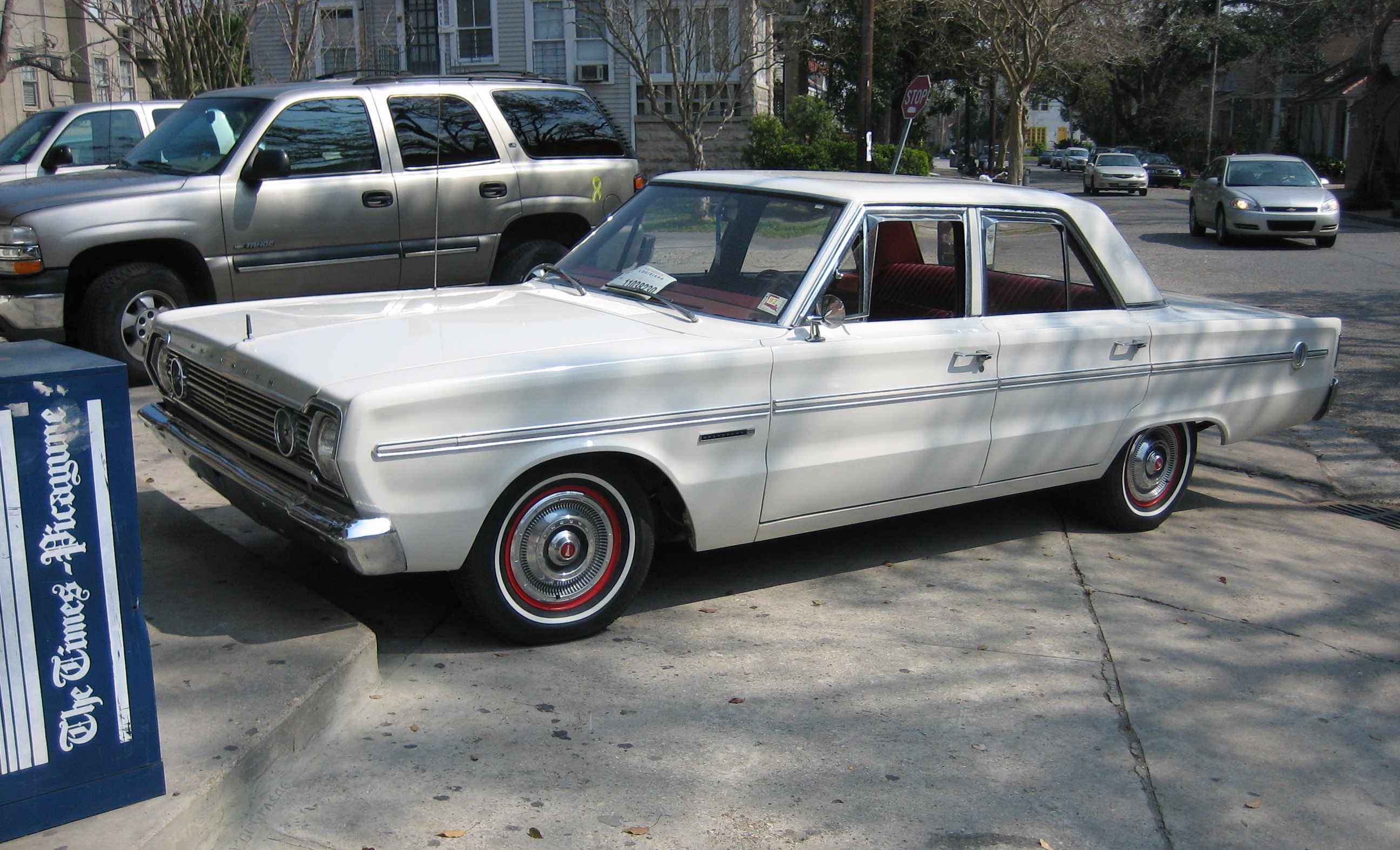 A 1960s Plymouth Belvedere in good condition spotted at po-boy shop parking lot on Maple Street, Carrollton neighborhood of New Orleans. Photo by Infrogmation, 6 March 2006.